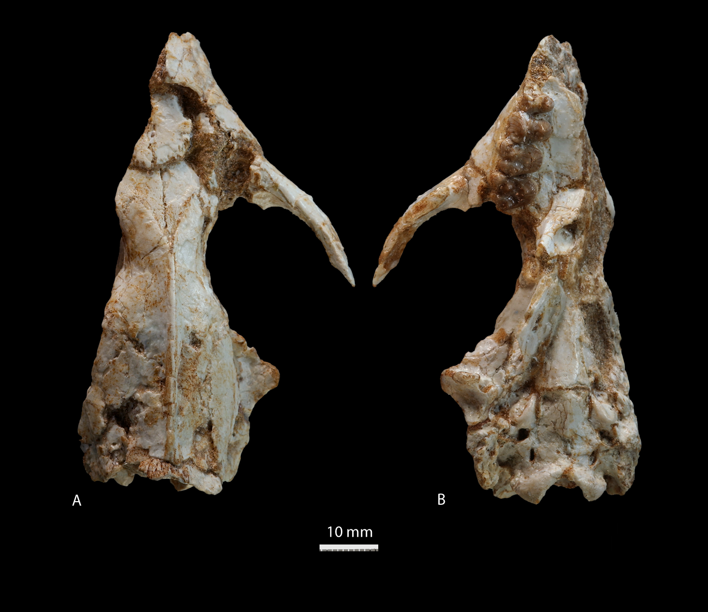 Cranium of Ocepeia daouiensis, an extinct mammal from the Paleocene of Morocco. A. Dorsal view of the skull. B. Ventral view of the skull. Scale bar: 10 mm.